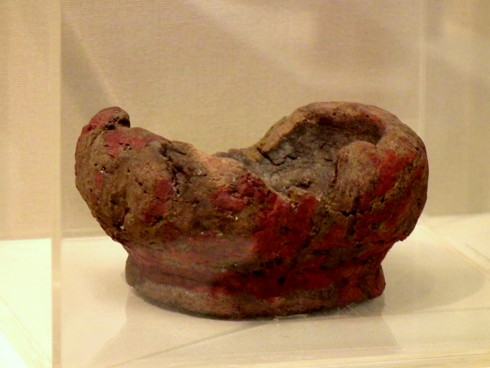 This archaeological artifact was unearthed at Hemudu, Yuyao in 1977. Exhibited in Zhejiang Museum.